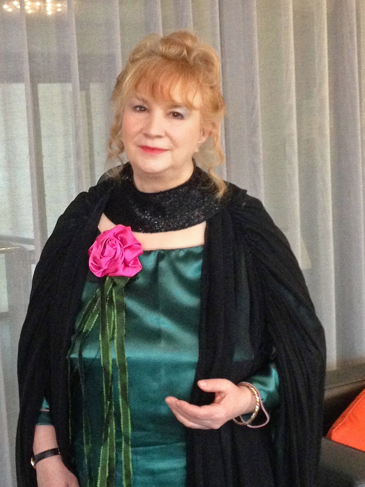 Clara Luisa Demar, artist, from Zürich, Switzerland, in 2017